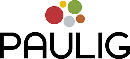 Paulig logo